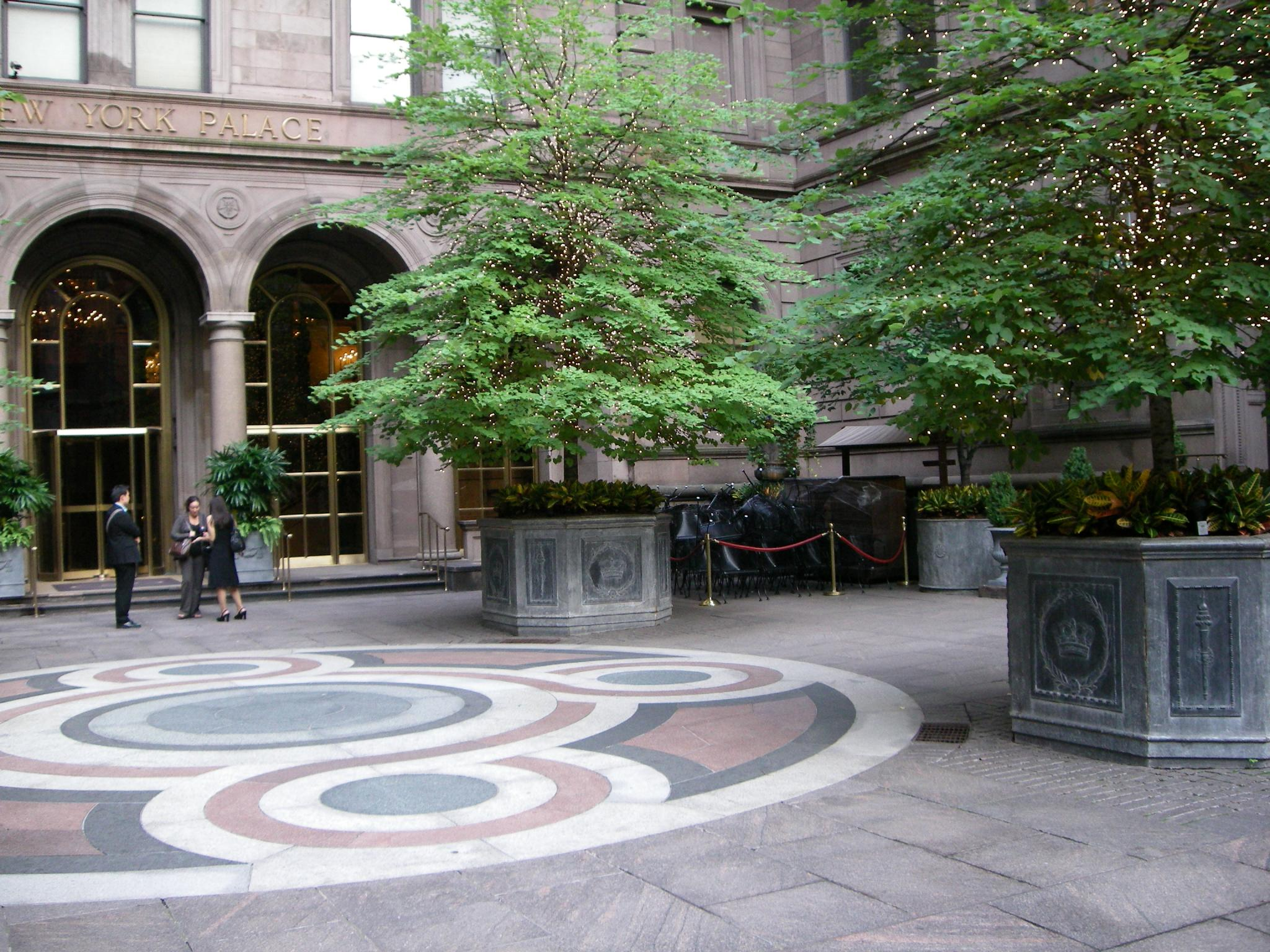 The New York Palace Hotel - Gossip Girl